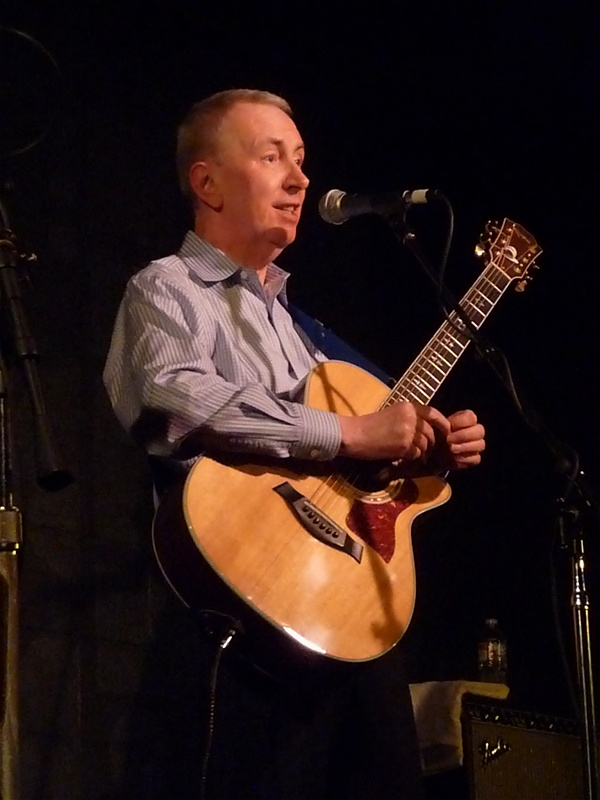 Singer-song writer Al Stewart performing live at McCabe's Guitar Shop in Santa Monica, California.